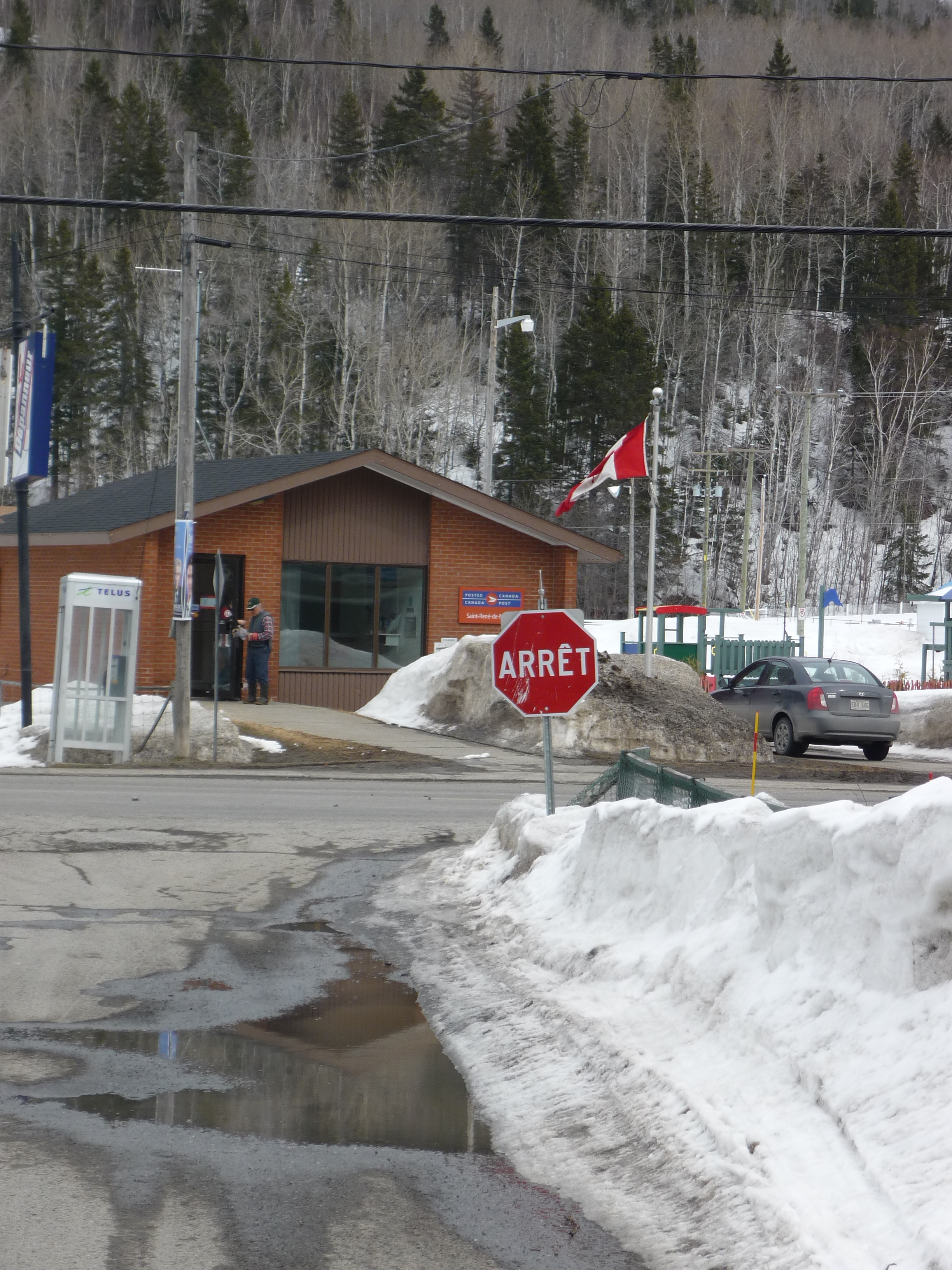 Post office of Saint-René-de-Matane, Quebec